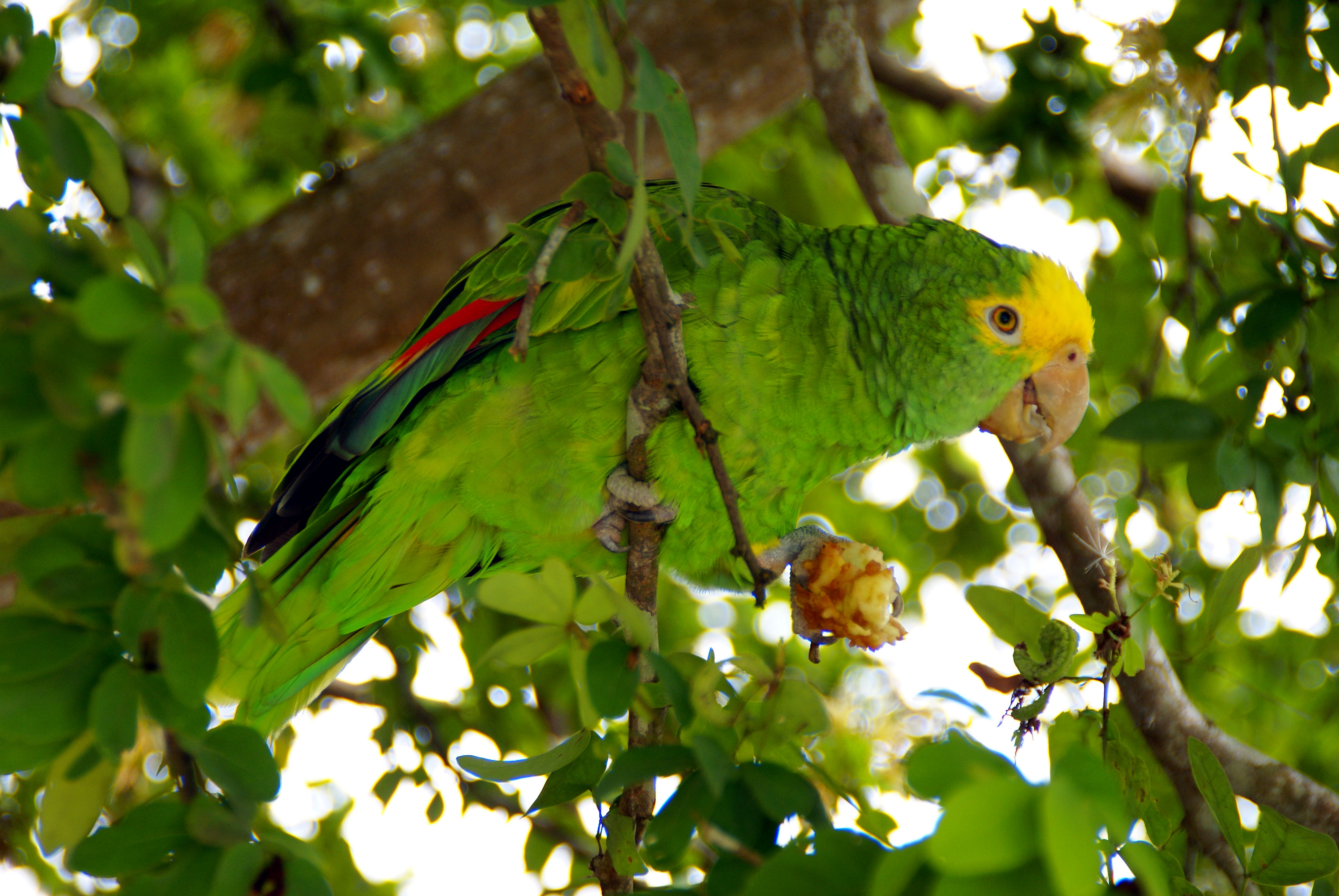 Yellow-headed Amazon perching in a tree in Belize. It is standing on its right foot and holding some food in its left foot. Probably yellow-faced morph of A. o. belizensis.